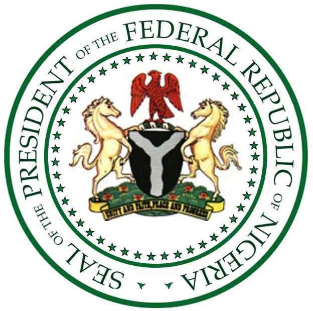 Seal of the President of Nigeria